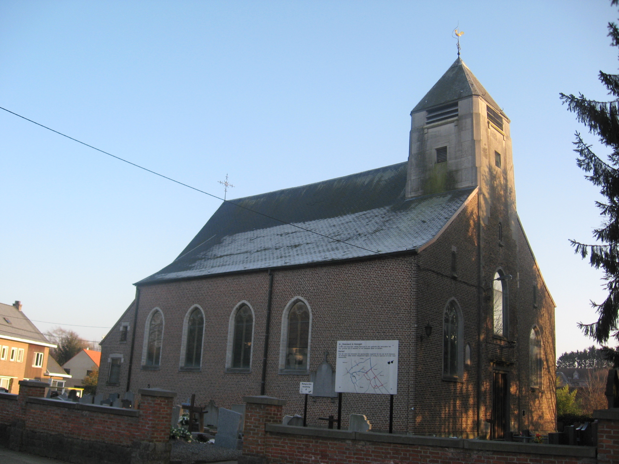 Church of Saint Peter in Kiezegem, Meensel-Kiezegem, Tielt-Winge, Flemish Brabant, Belgium